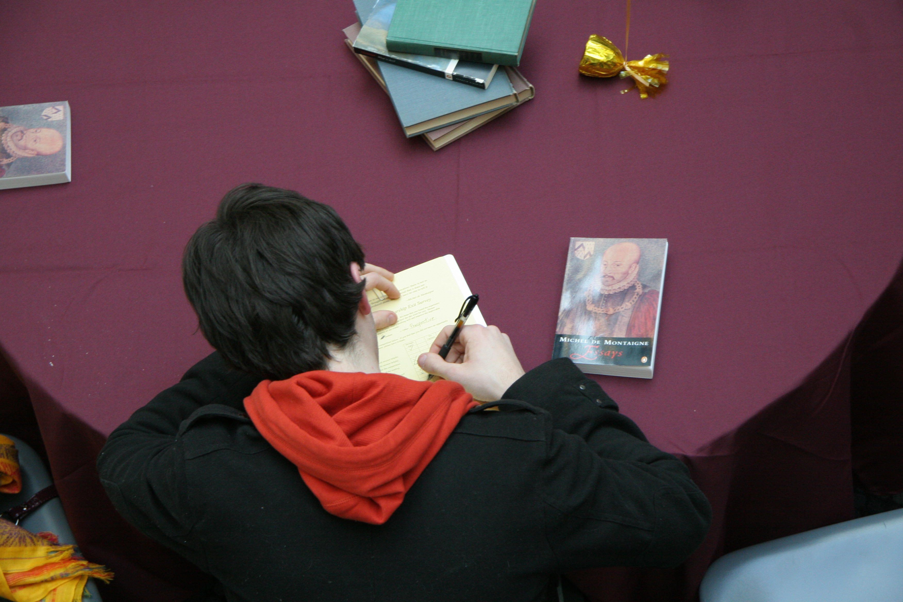 Student takes notes during annual Montaigne scholarship competition at Shimer College in Chicago in February 2011. A copy of J.M. Cohen's translation of Montaigne's Essays lies to the student's right.